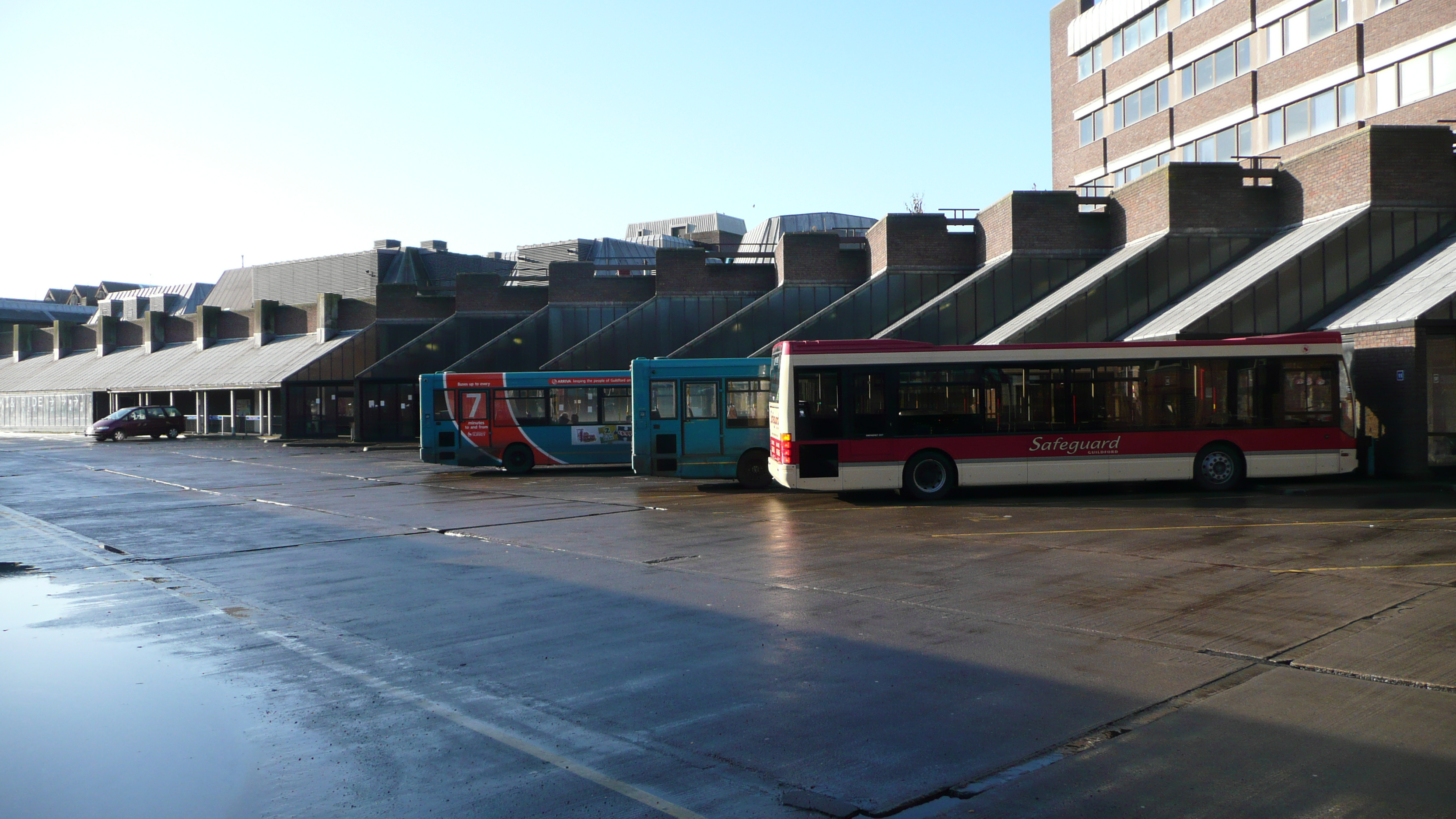 A view of the exit end of Guildford bus station.